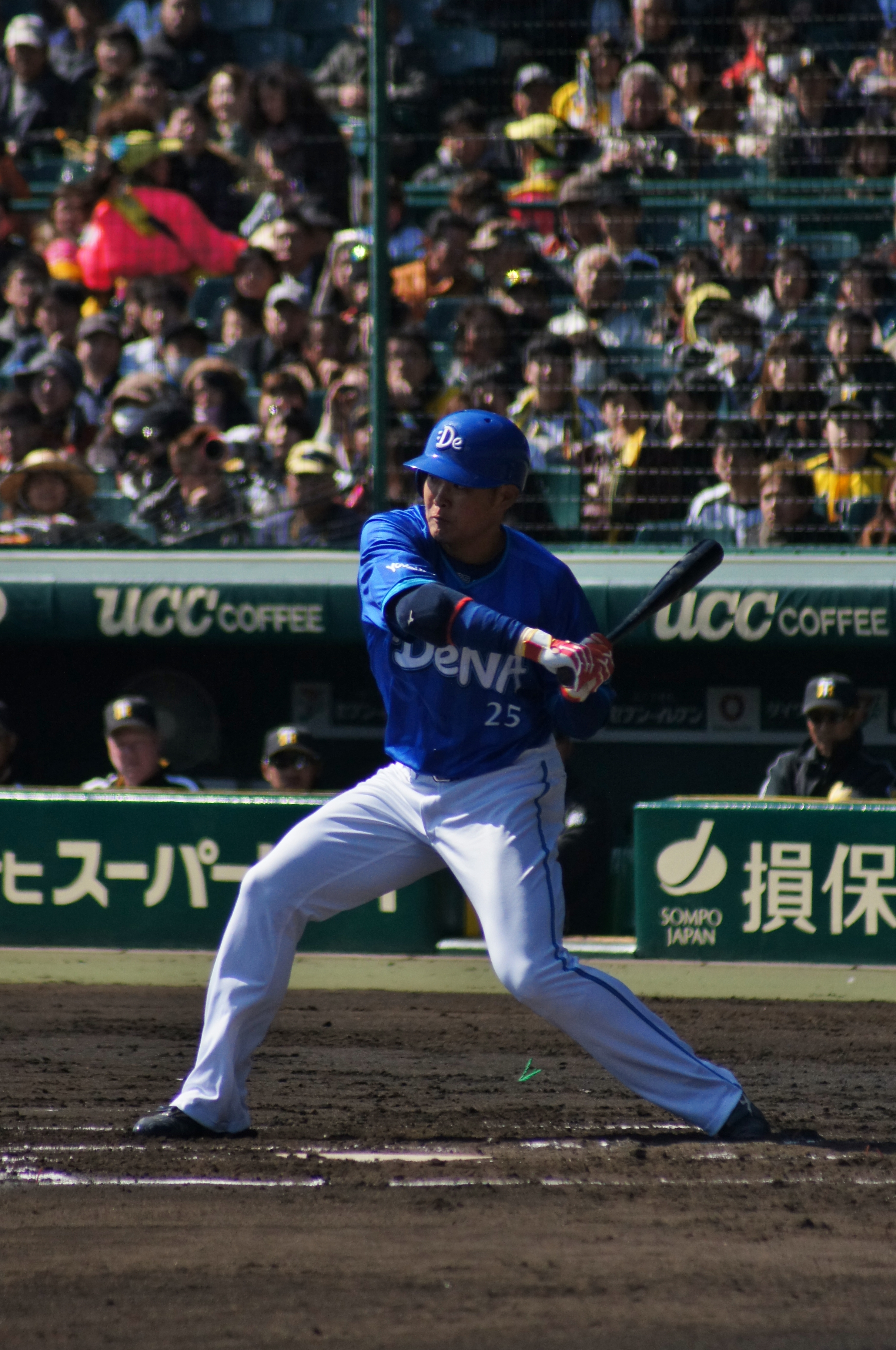 Yoshitomo Tsutsugo, outfielder for the Yokohama DeNA BayStars, at Hanshin Koshien Stadium